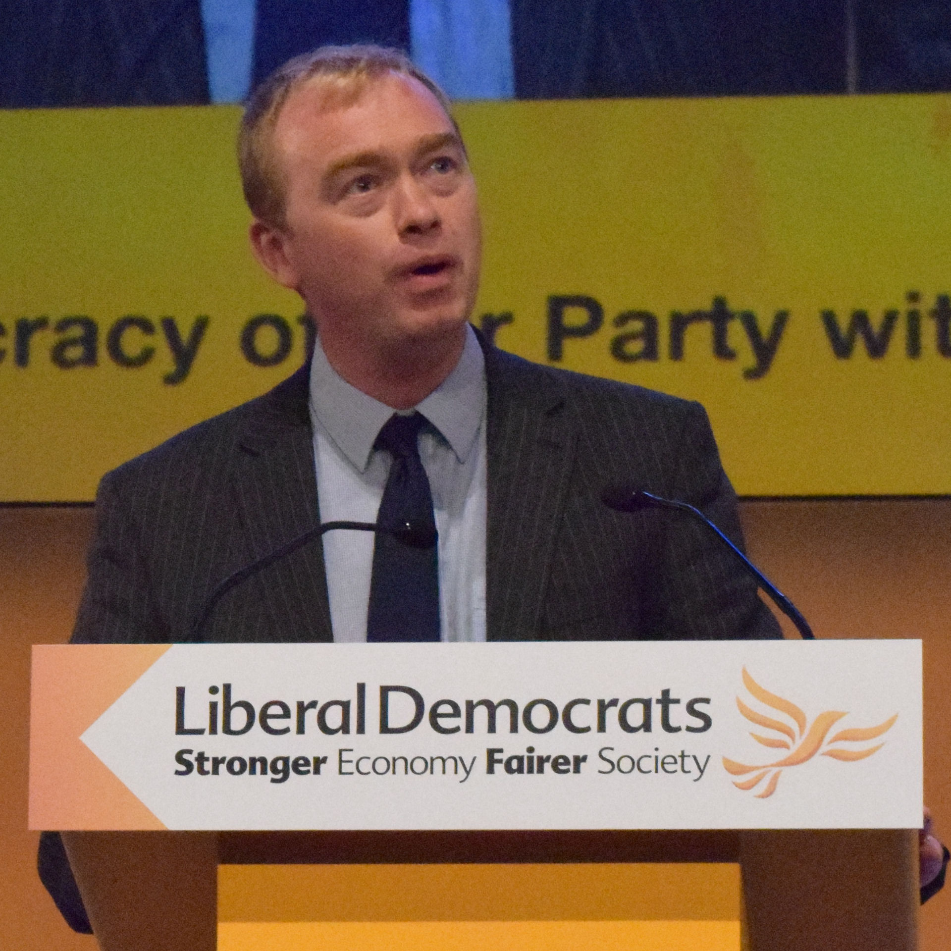 Tim Farron speaking at a Liberal Democrat conference in the Clyde Auditorium, Glasgow, 2014.